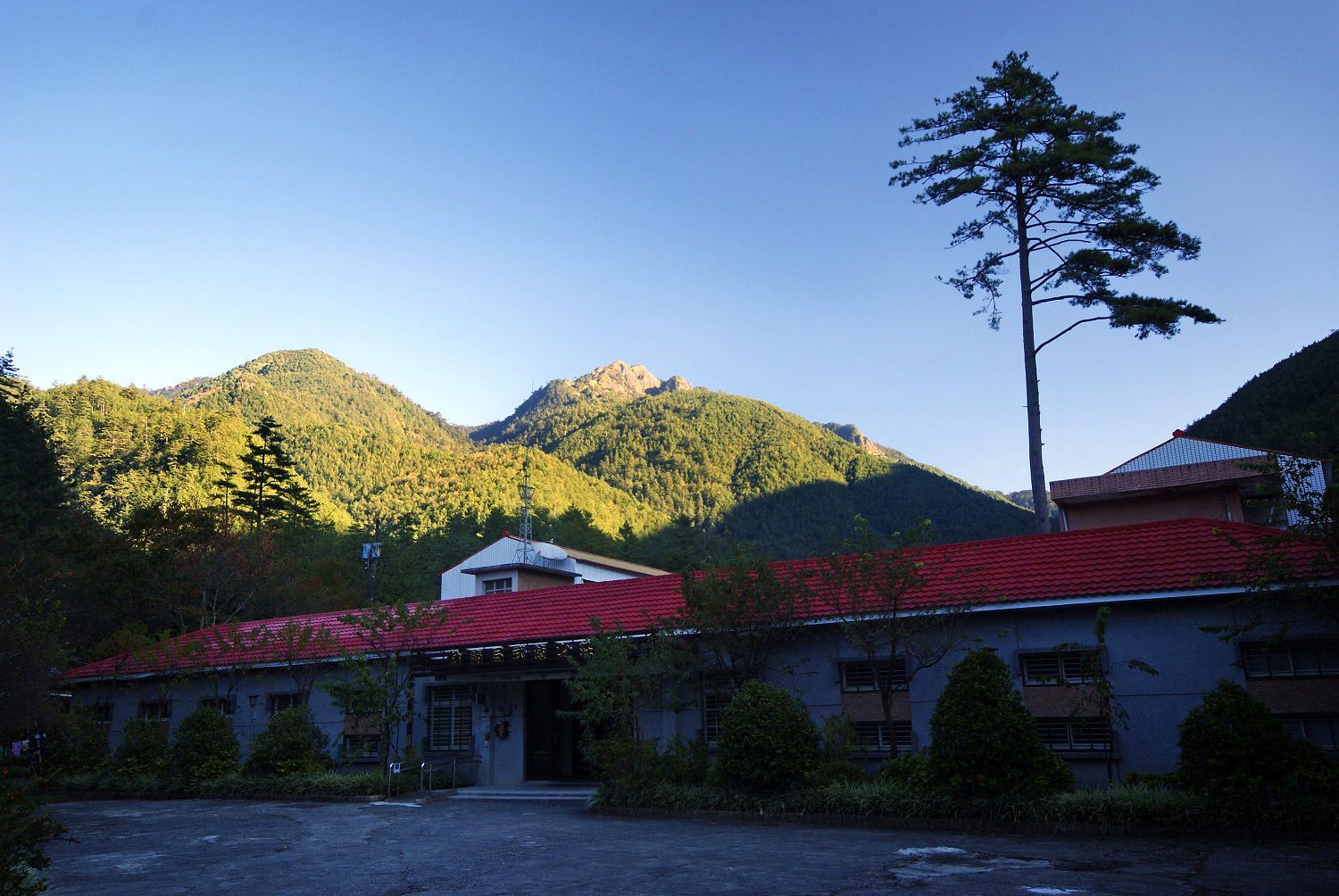 Tao Mountain(peach mountain), Taiwan 台灣桃山